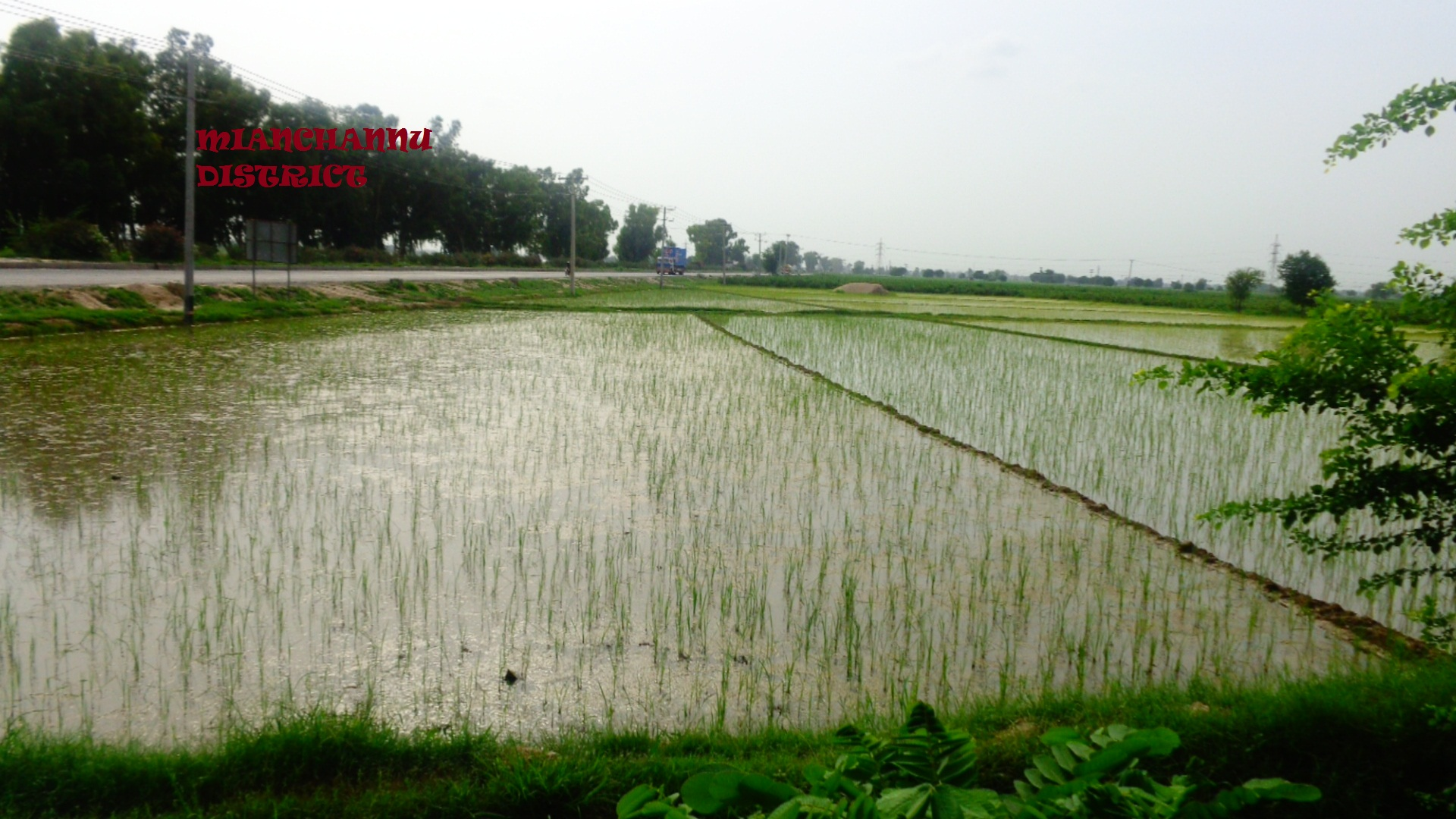 After on the way coming back from Hunza to Multan. Mian Chanu tehsil represents the ultimate beauty of southern Punjab, Pakistan. This place offers beautiful scenes.